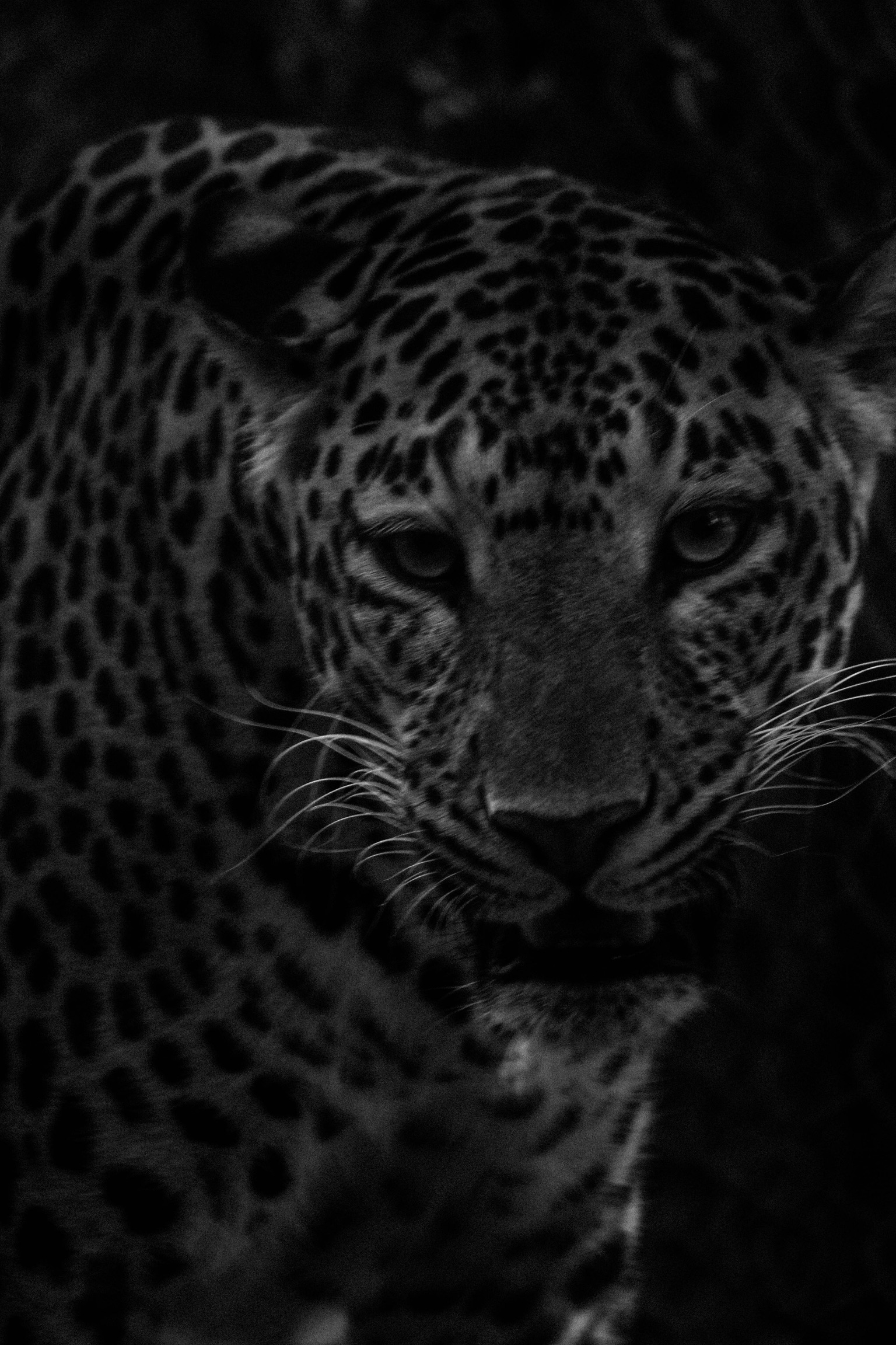 Looking high &low,hide away,even when the light changes,he cannot change his spots. Hs spots remains forever